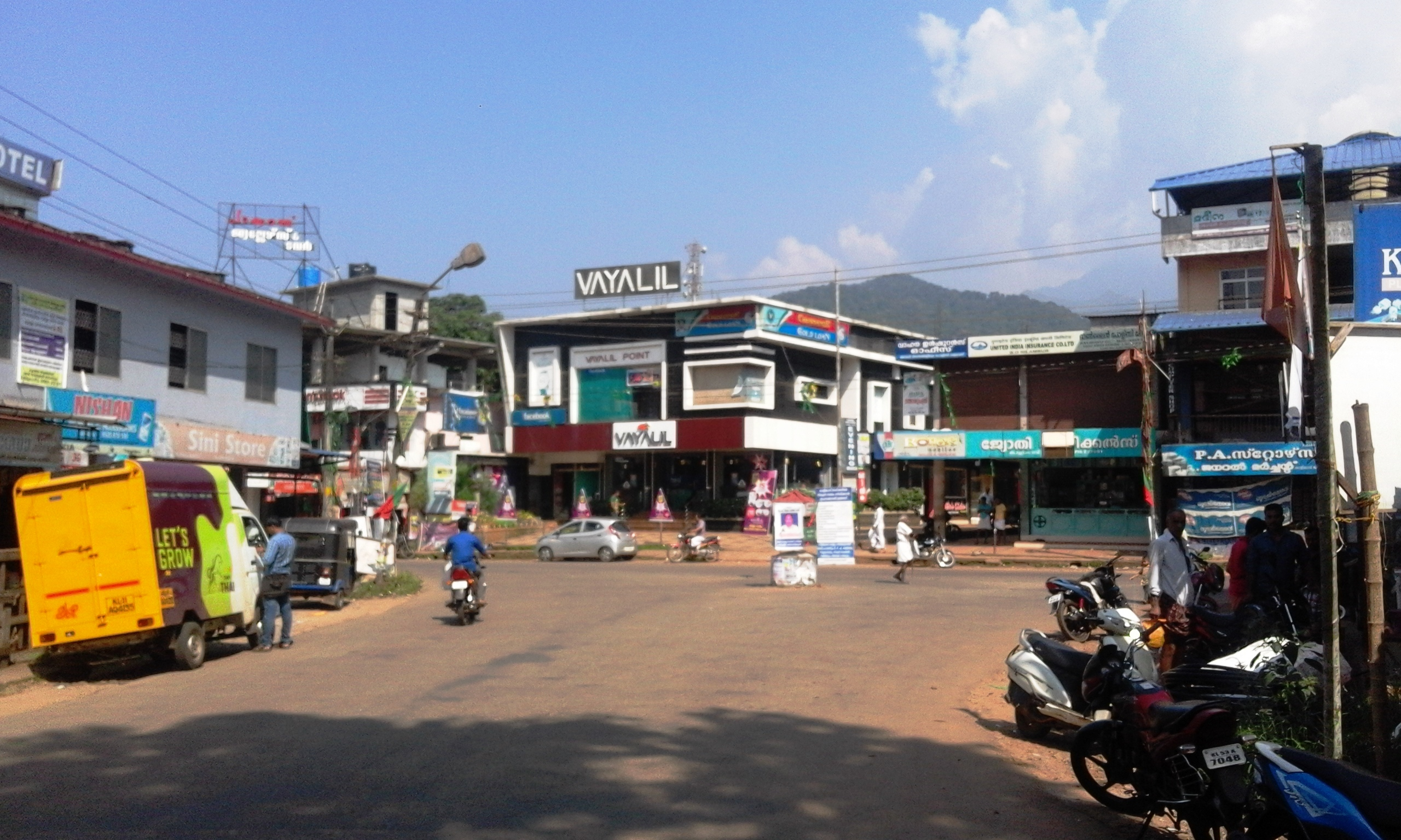 Wandoor Road, Kalikavu, Malappuram District, India.